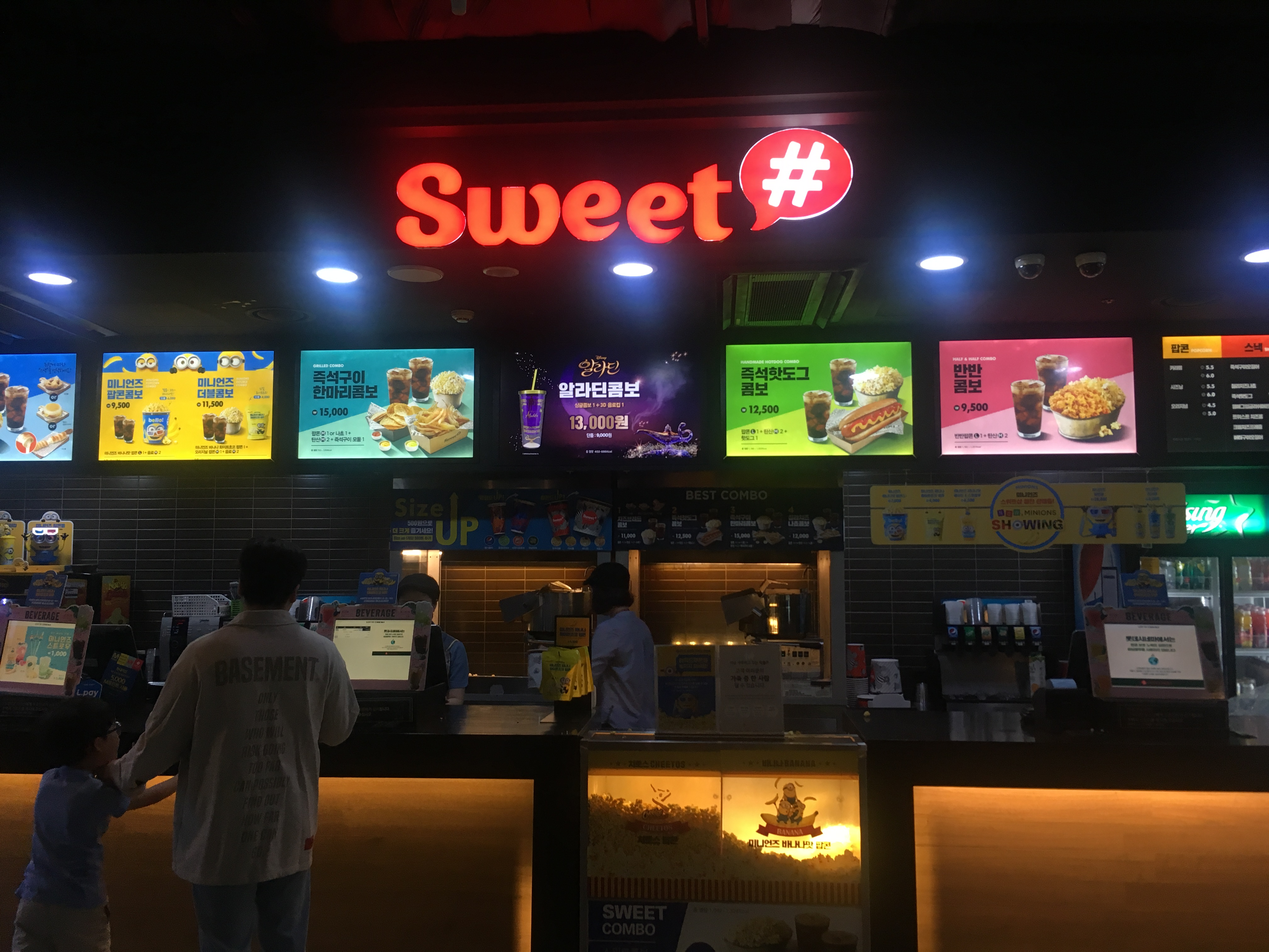 Snacks Bar in Lotte Cinema